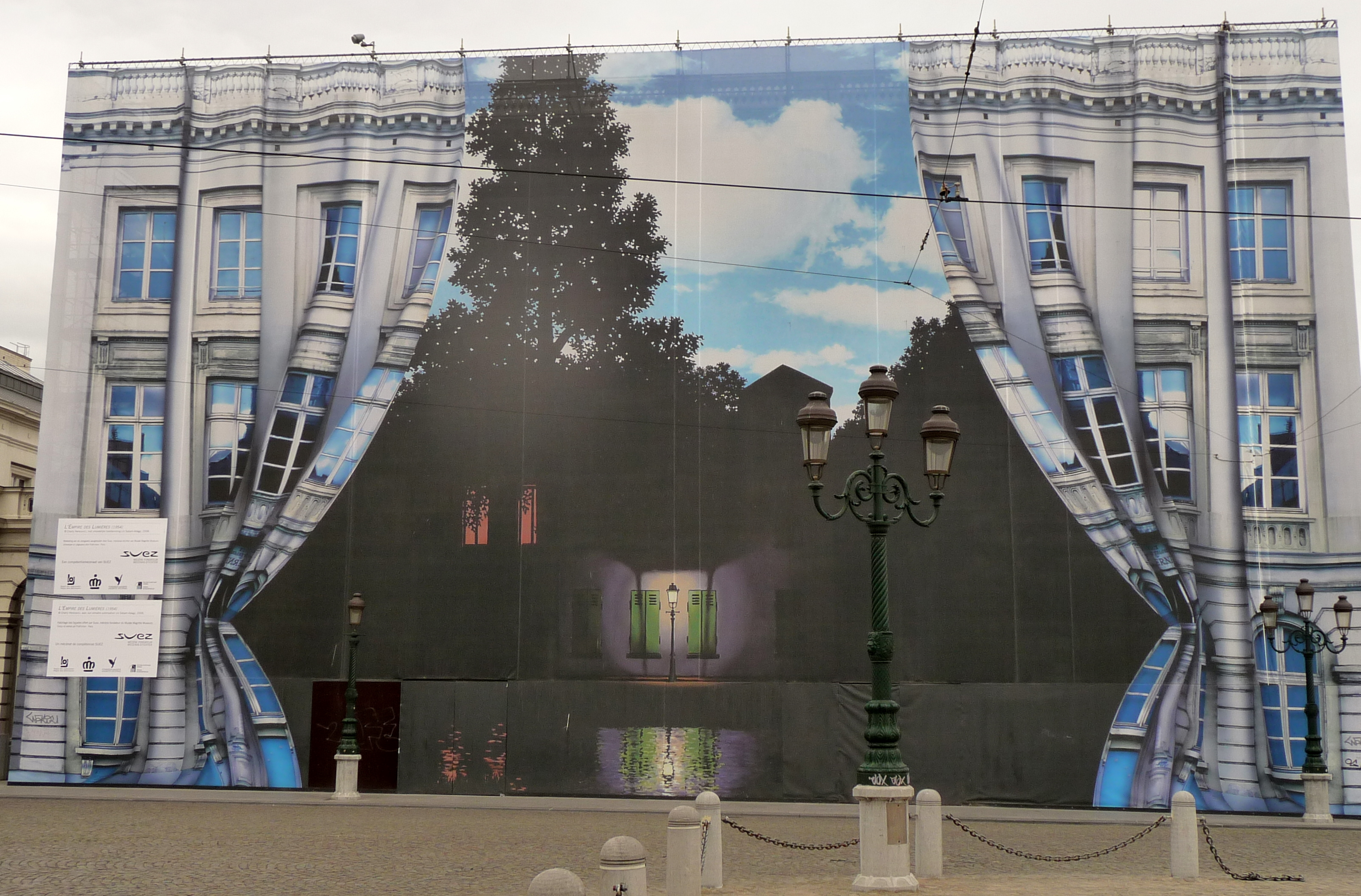 Royal Museums of Fine Arts in Belgium, Brussels. Installation of the new Magritte-Museum 2008/09